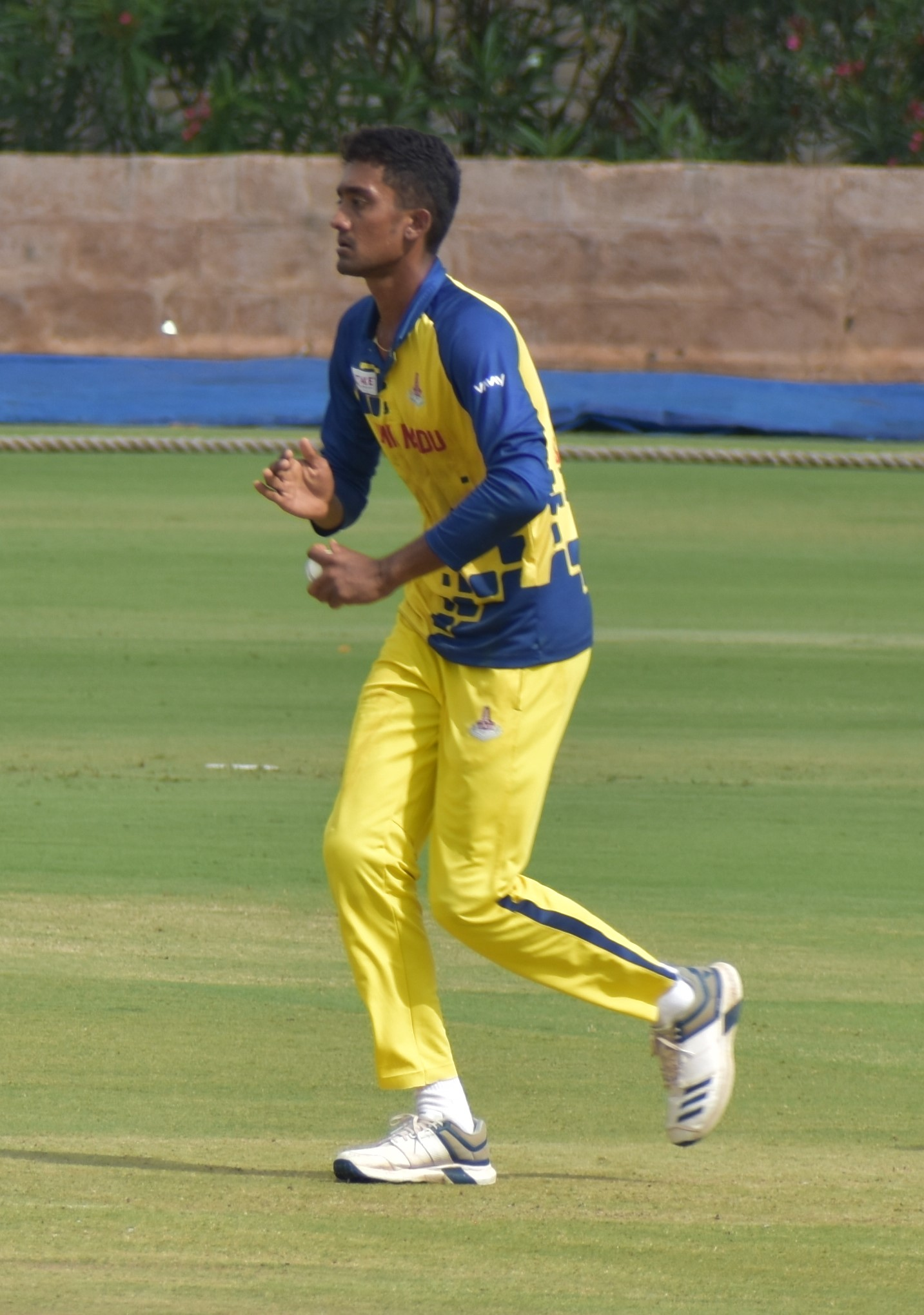 Indian cricketer Sai Kishore during the 2019-20 Vijay Hazare Trophy in Alur, Bangalore.